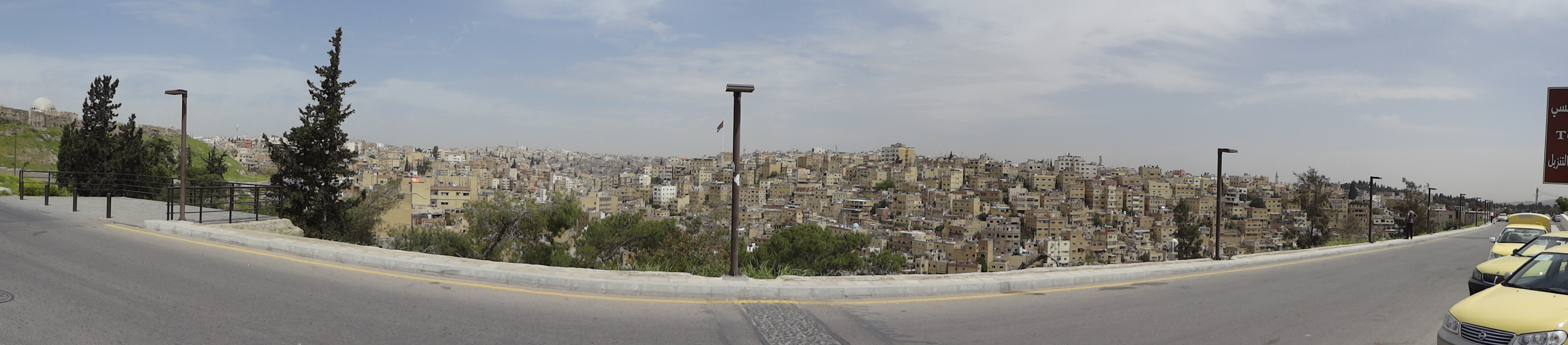 Amman Jordan